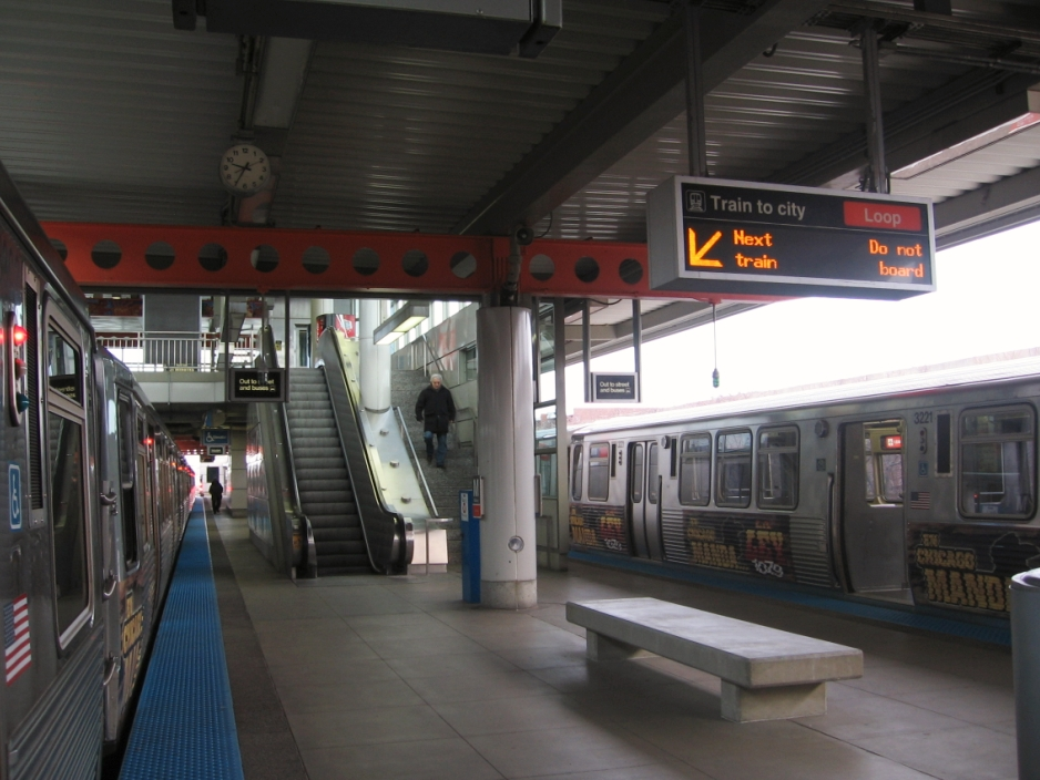 Photo by Norma Fernandez of the Midway CTA station.